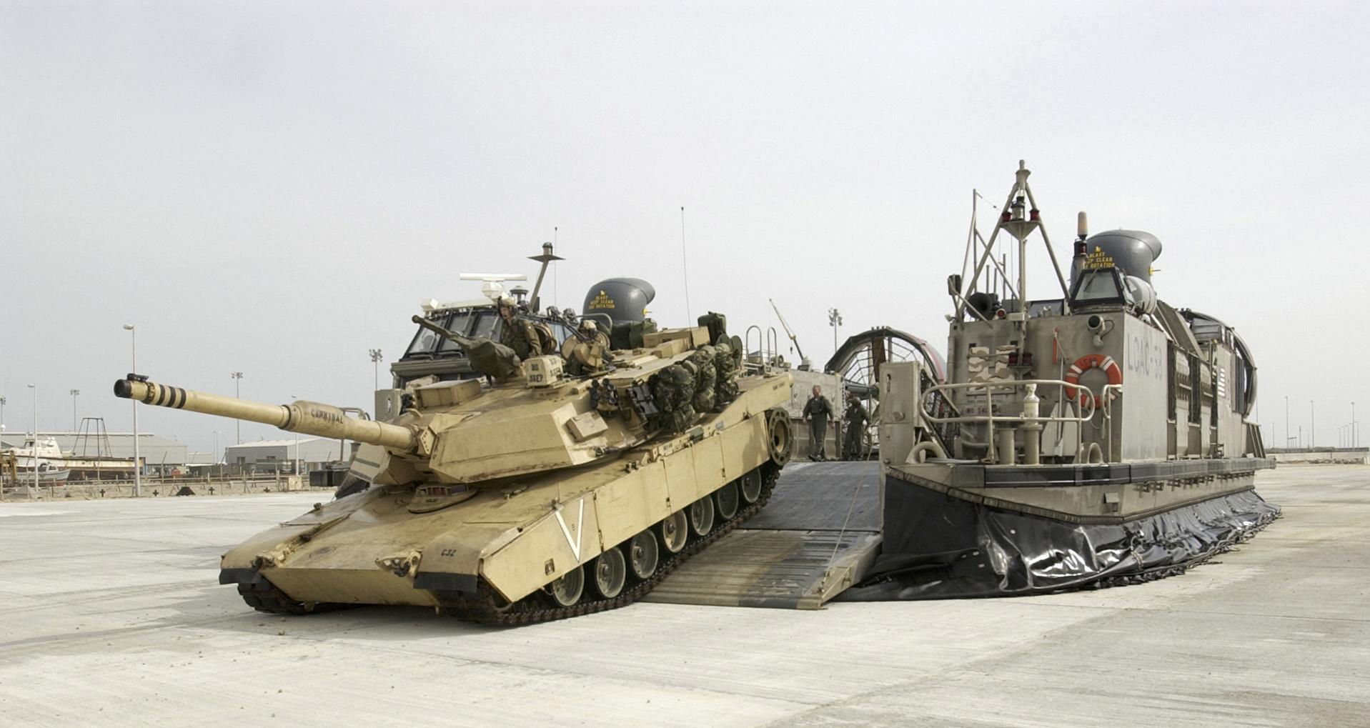 M1A1 Abrams practicing an offloading from amphibious craft.